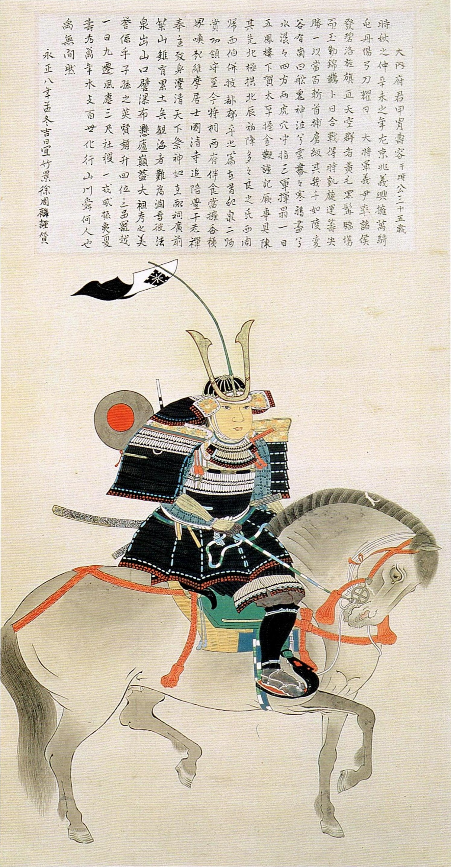 Portrait of Ōuchi Yoshioki, owned by Yamaguchi Museum in Yamaguchi, Yamaguchi, Japan